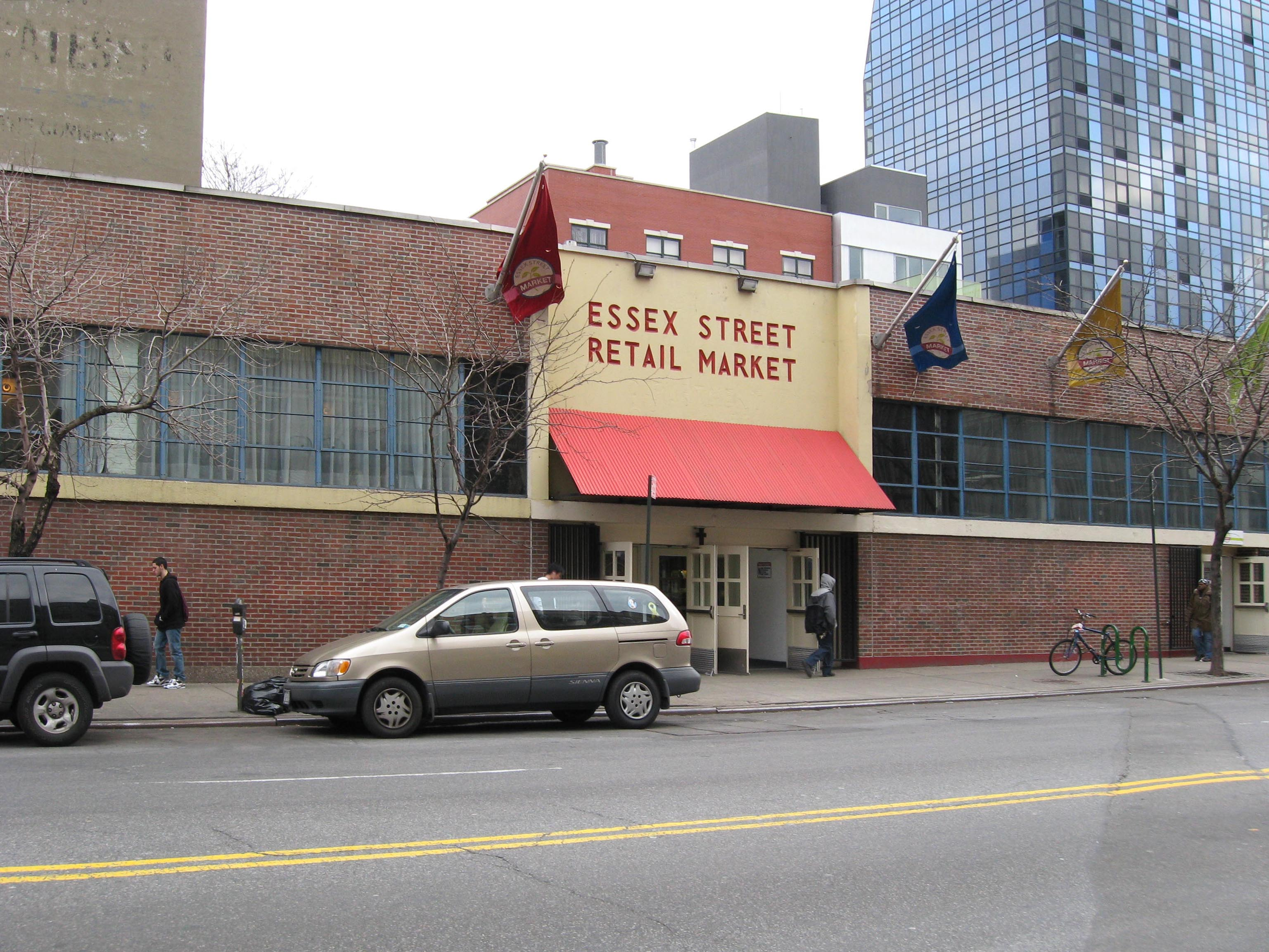 Essex Street Market on a cloudy late winter afternoon